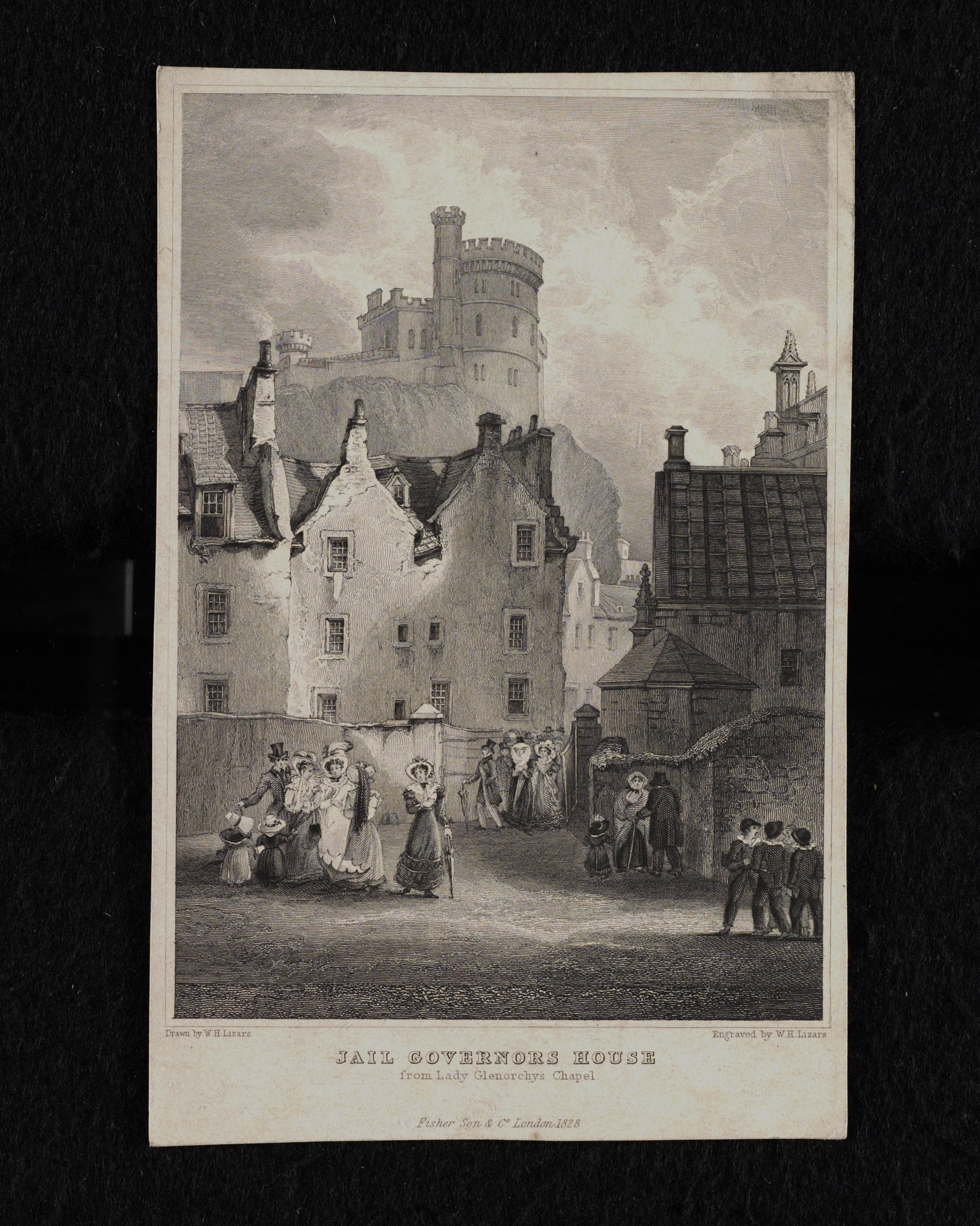 Jail Governors House, W.H. Lizars drawn and engraved. London, 1828